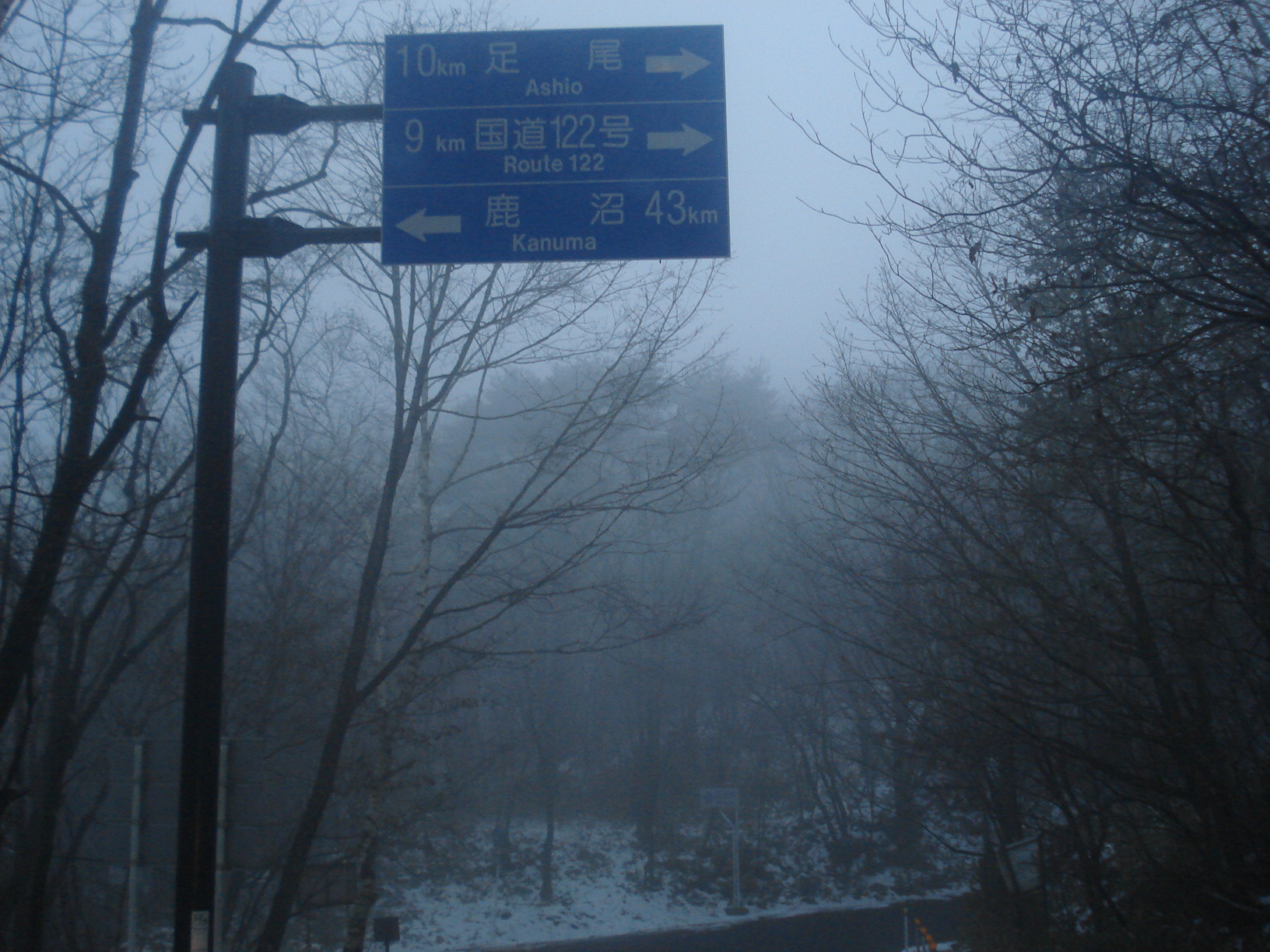 End point of the Tochigi Prefectural Road Route 58 at Kasuo Pass in Ashio, Nikko City